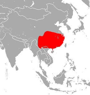 Pratt's Roundleaf Bat (Hipposideros pratti) range